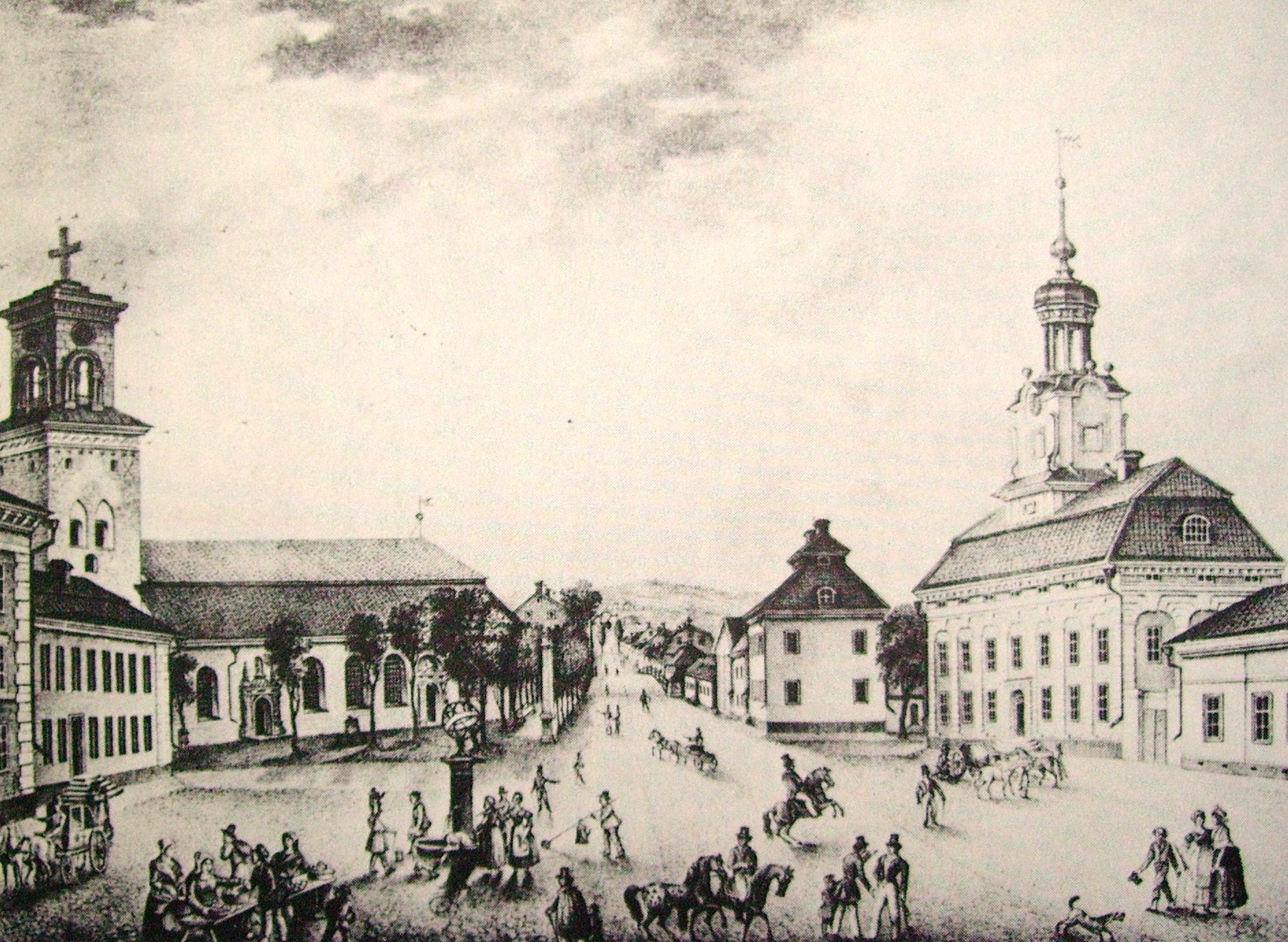 Photo of an engraving showing Stora torget in Nyköping, Sweden, engraved by Elias Martin in the 1840s.